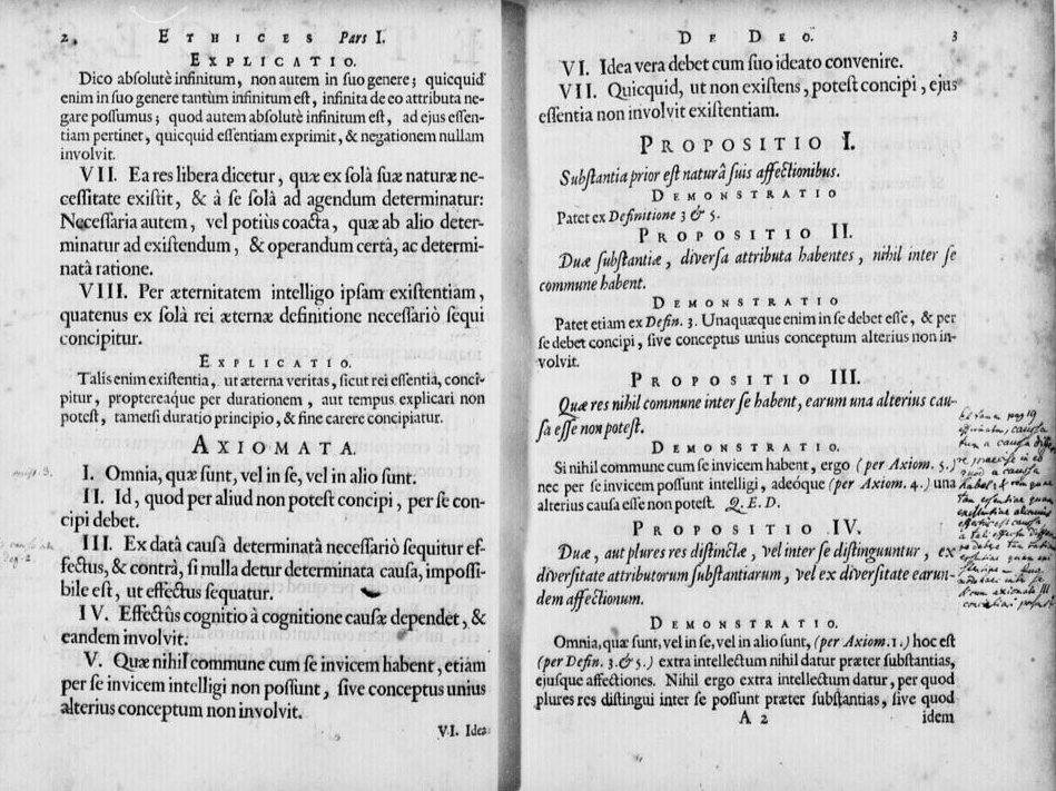 Spinoza's Ethica Ordine Geometrico Demonstrata, Part 1, axioms and propositions I-IV.